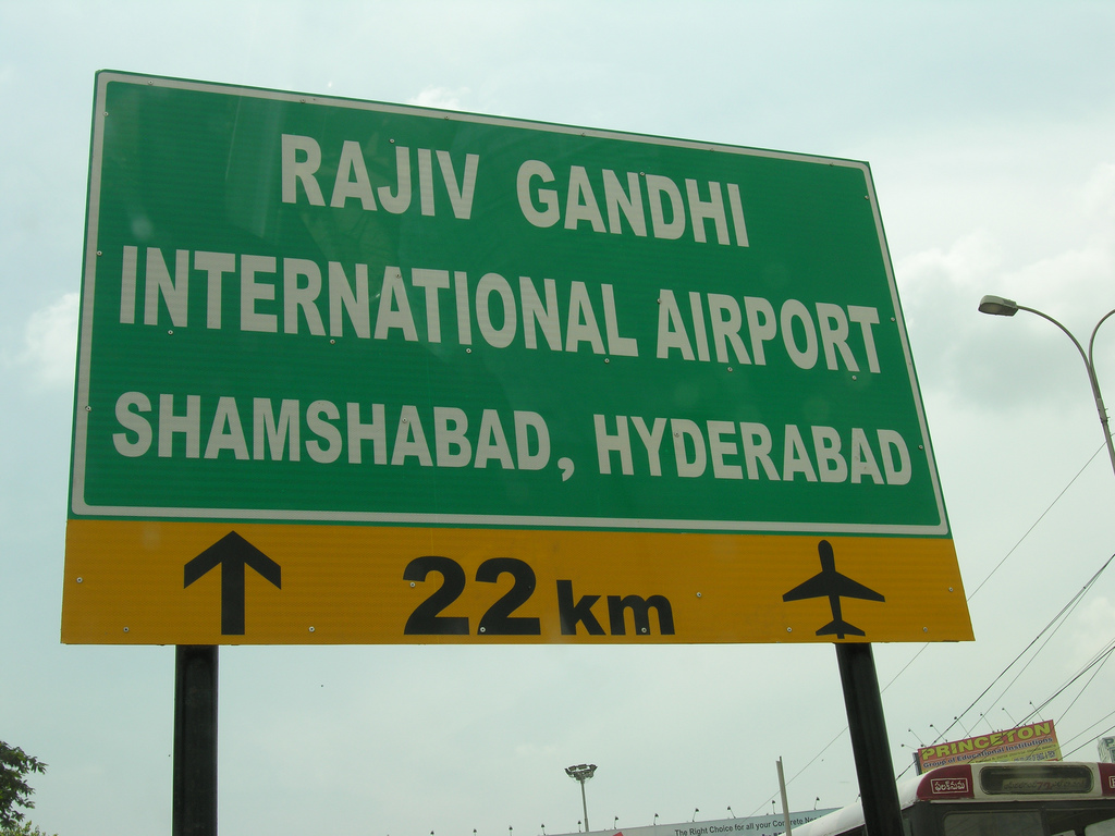 Sign for Rajiv Gandhi Airport, Hyderabad, India